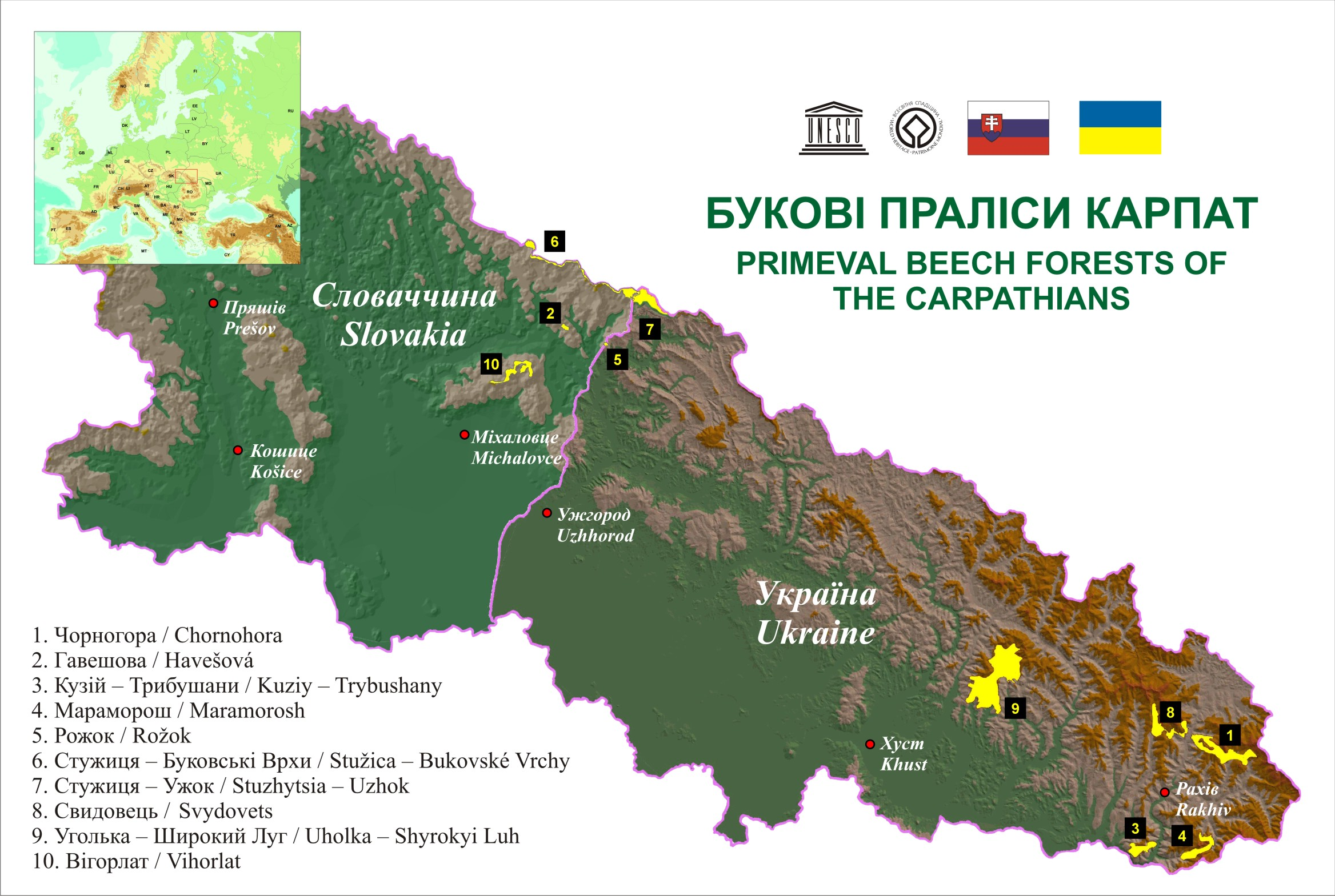 Primeval Beech Forests of the Carpathians